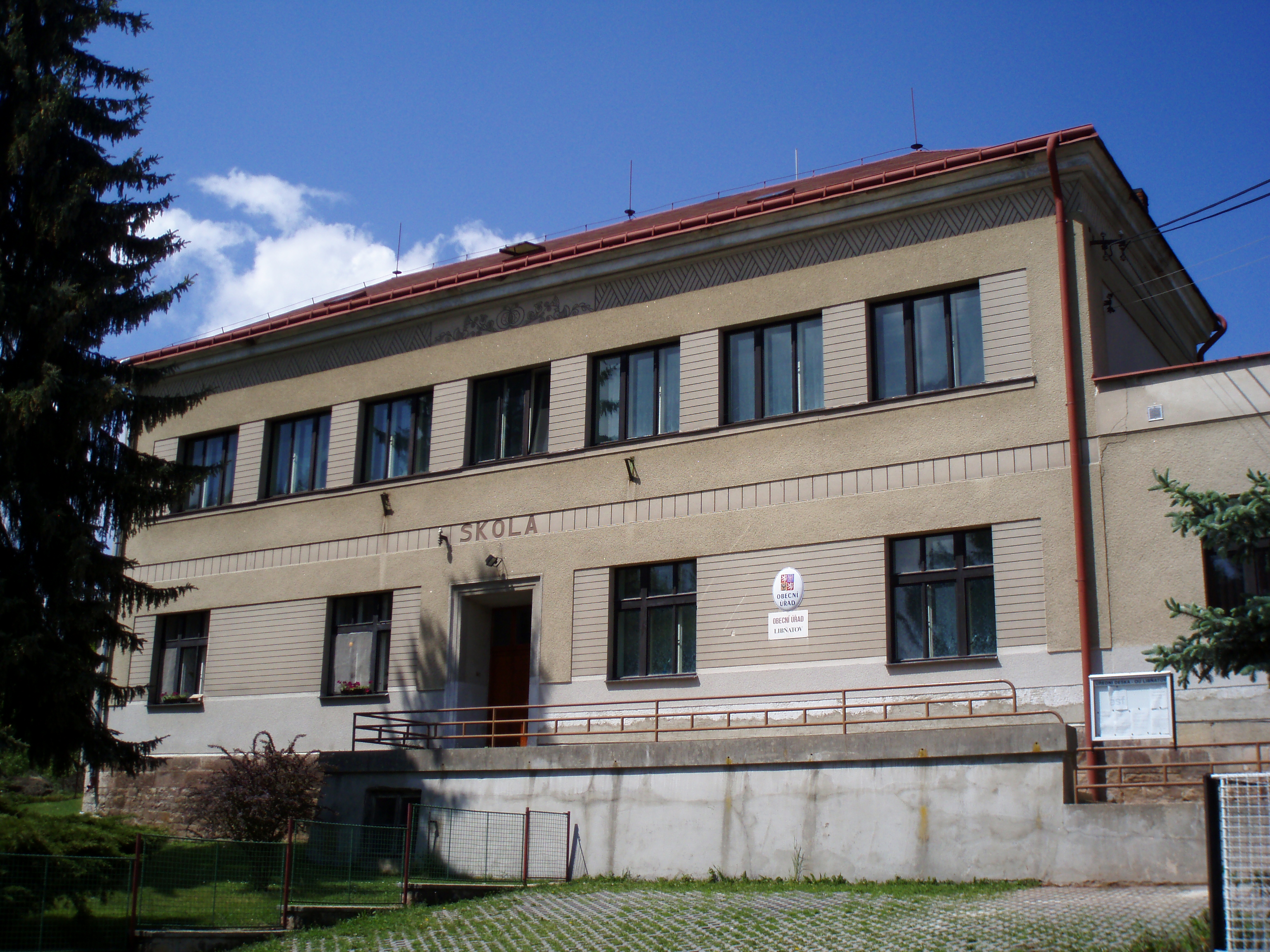 Local Authority Building in Libňatov (District of Trutnov, Czech Republic)